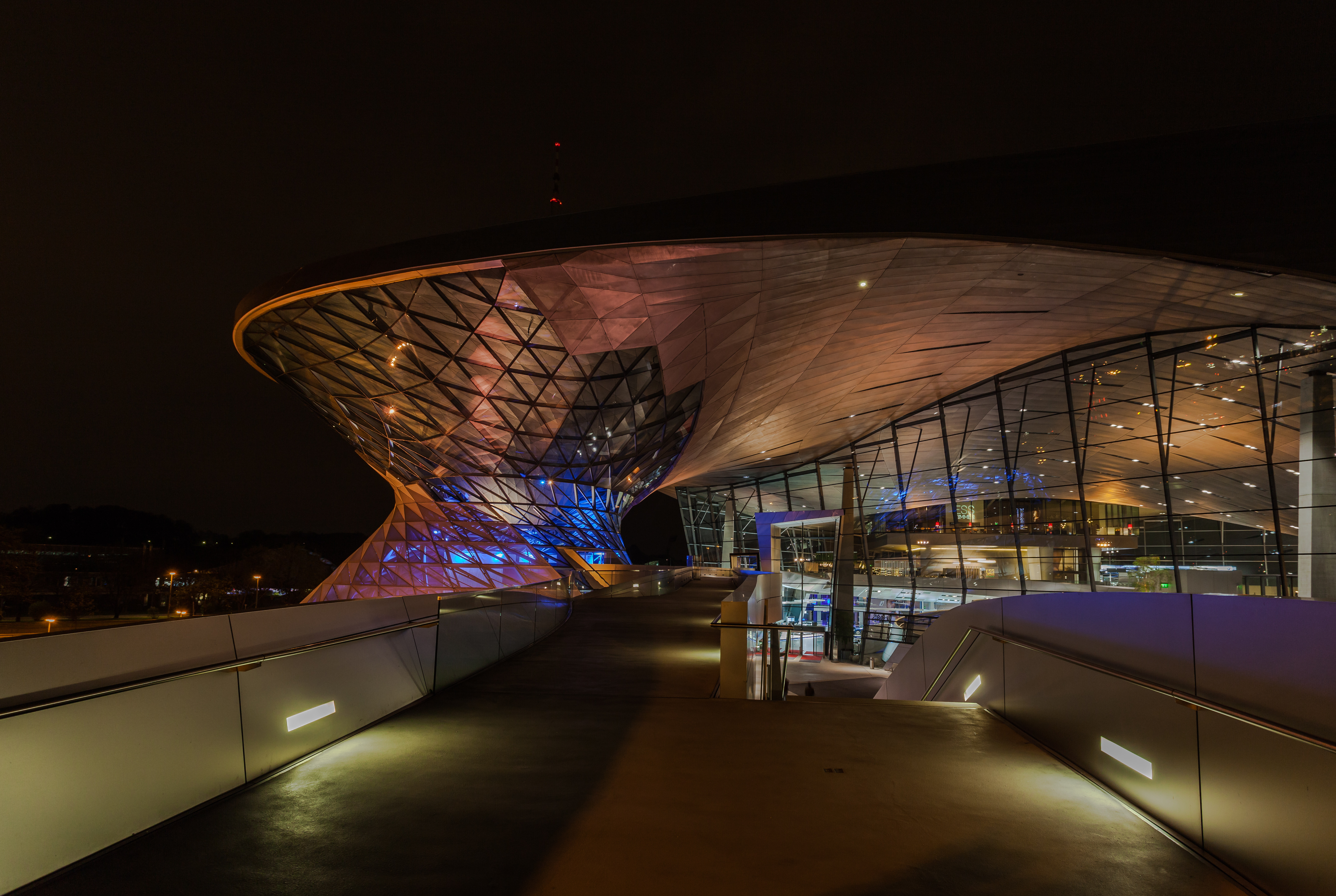 BMW Welt, Munich, Germany